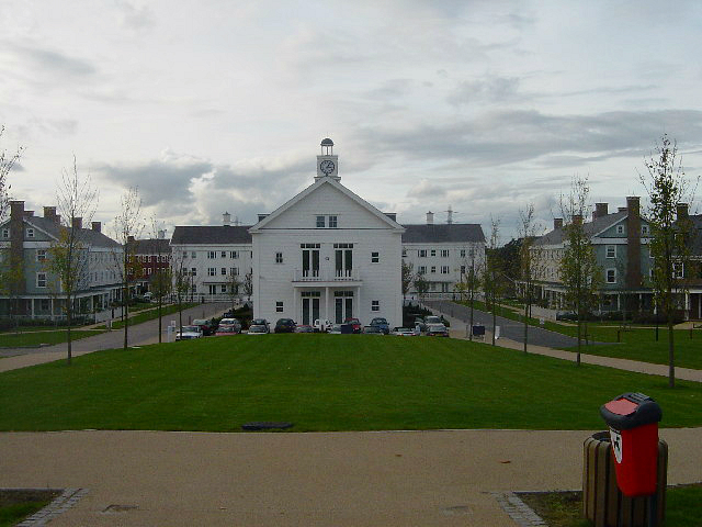 The Hamptons. This is a new housing development on the site of the old sewage works near Worcester Park.